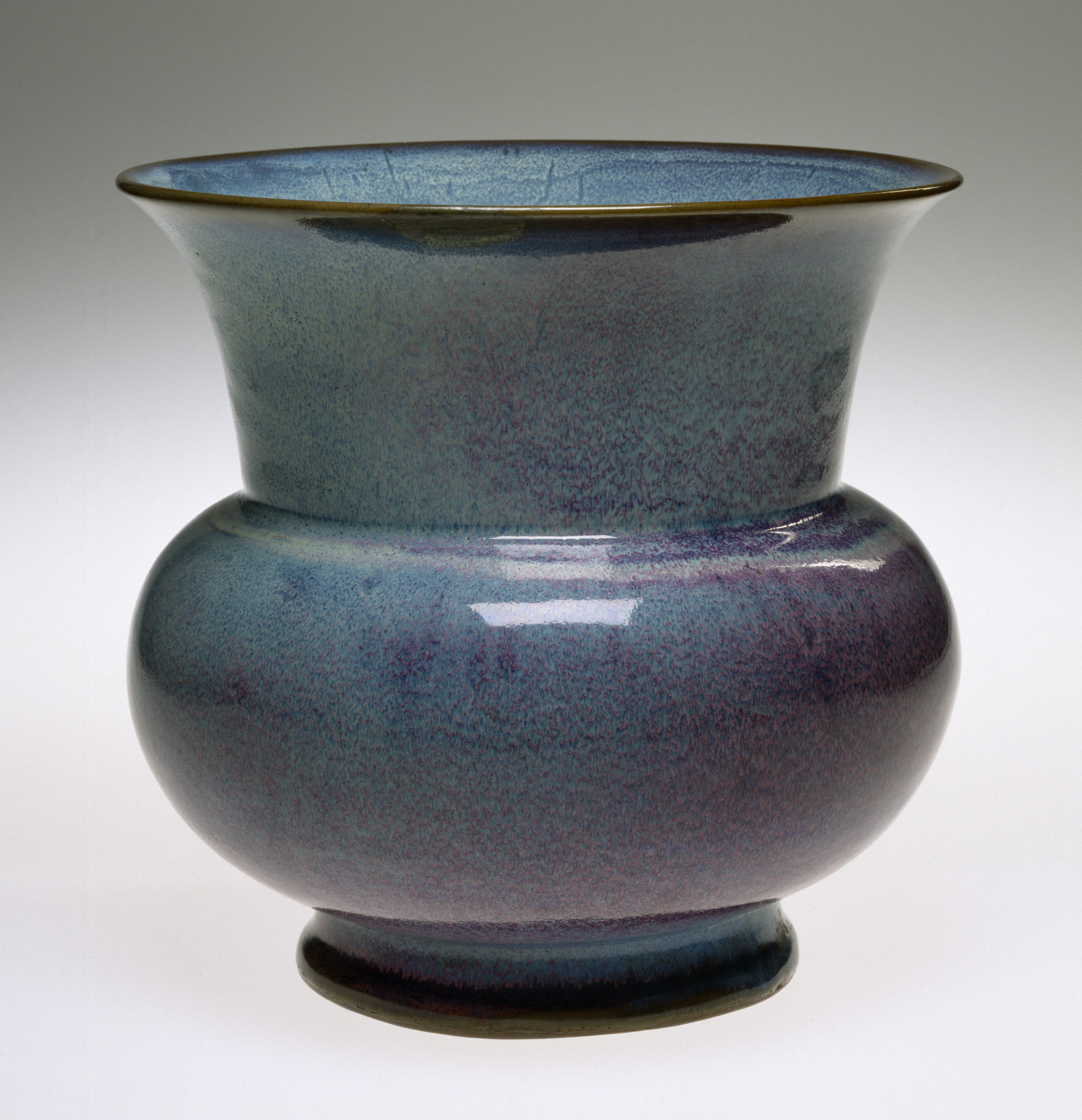 Wares of this sort were made for use by the last Northern Song [Sung] emperor (who reigned from 1101 until 1125), but some authorities believe that this vessel and others like it (in the National Palace Museum, Taipei) were made during the Ming [Ming] Dynasty.